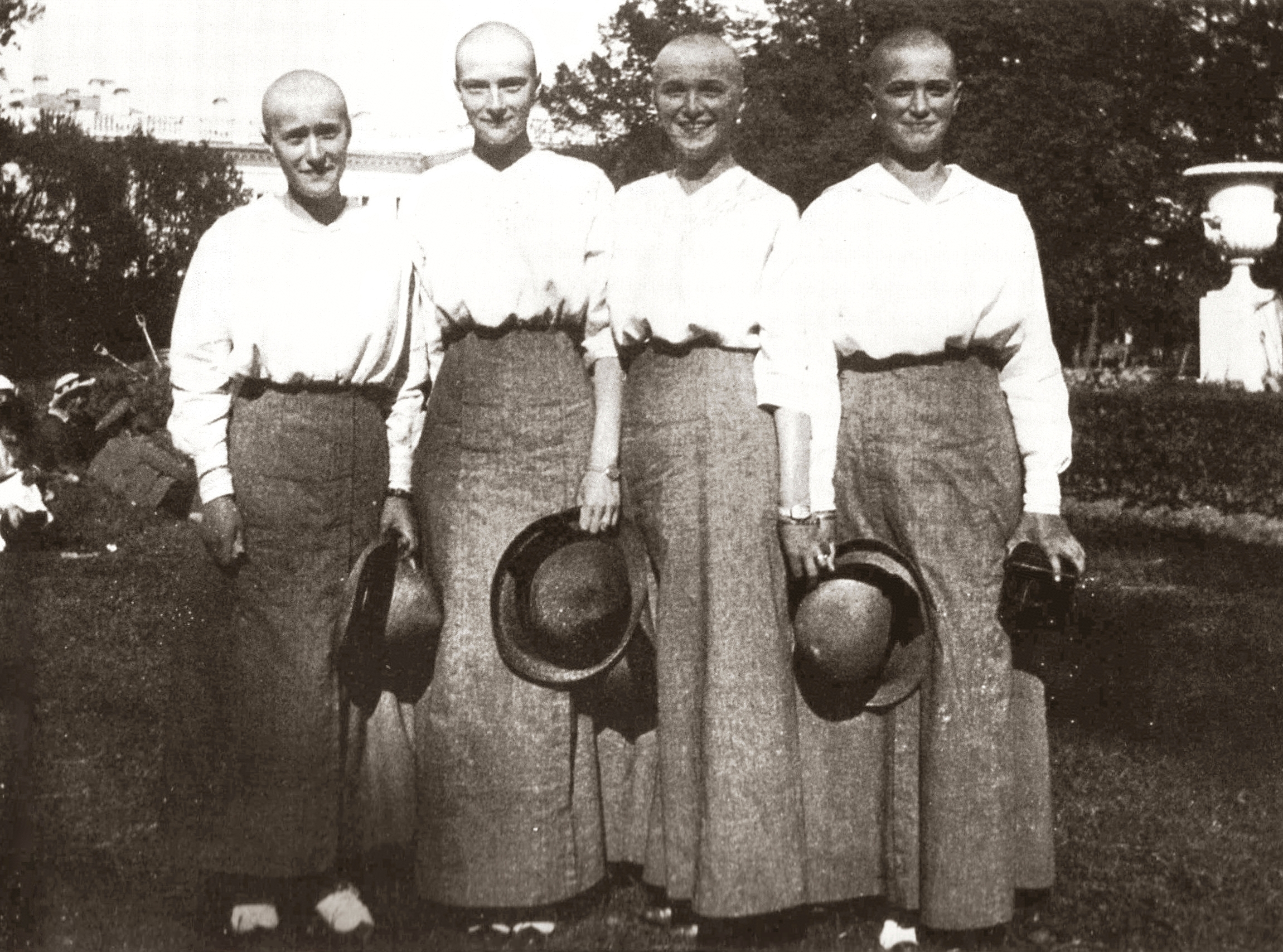 Daughters of Nicholas II in the garden of the Alexander Palace. The grand duchesses had their heads shaved in the spring of 1917 following a bout with measles. From left to right, Grand Duchesses Anastasia, Tatiana, Olga and Maria Nikolaevna.